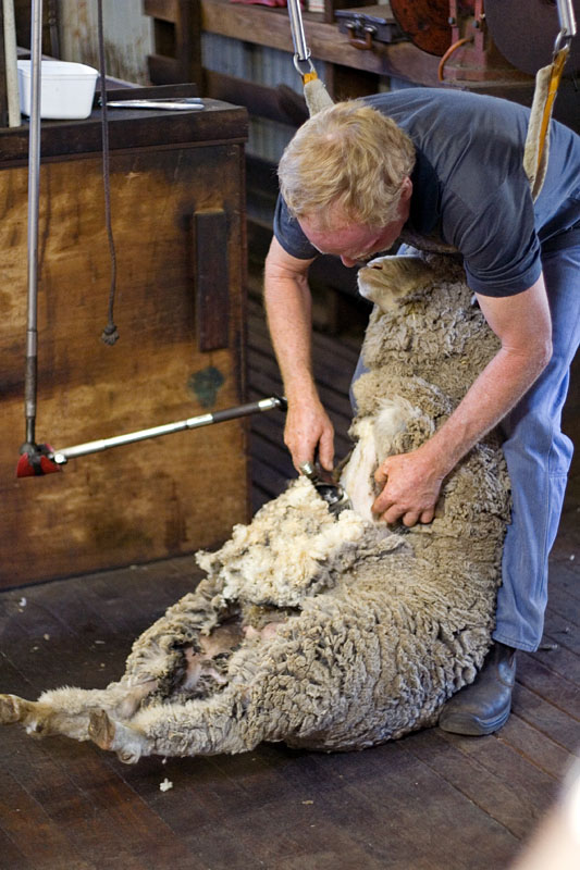 shearing a sheep at the Shearing Shed, Yallingup, Western Australia